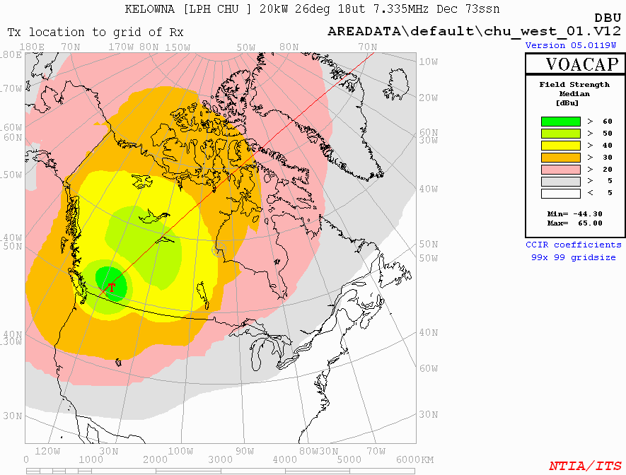 I am making these VOACAP HF area coverage calculations public so as to help users better understand the use of the VOACAP program. It is my hope that these calculations are used in all areas of Wikipedia that pertain to shortwave broadcasting. These calculations were created as part of propagation research contracts I received from Radio Canada International, BBC World Service and other international broadcasting entities before 2003. Some calculations are also derived from a contract with CBC-SRC (Canada) as well as the National Research Council (CHU Time Station) audibility programme. All parties have contractually released their calculations to the public domain. M. Power, CEO Power Broadcasting